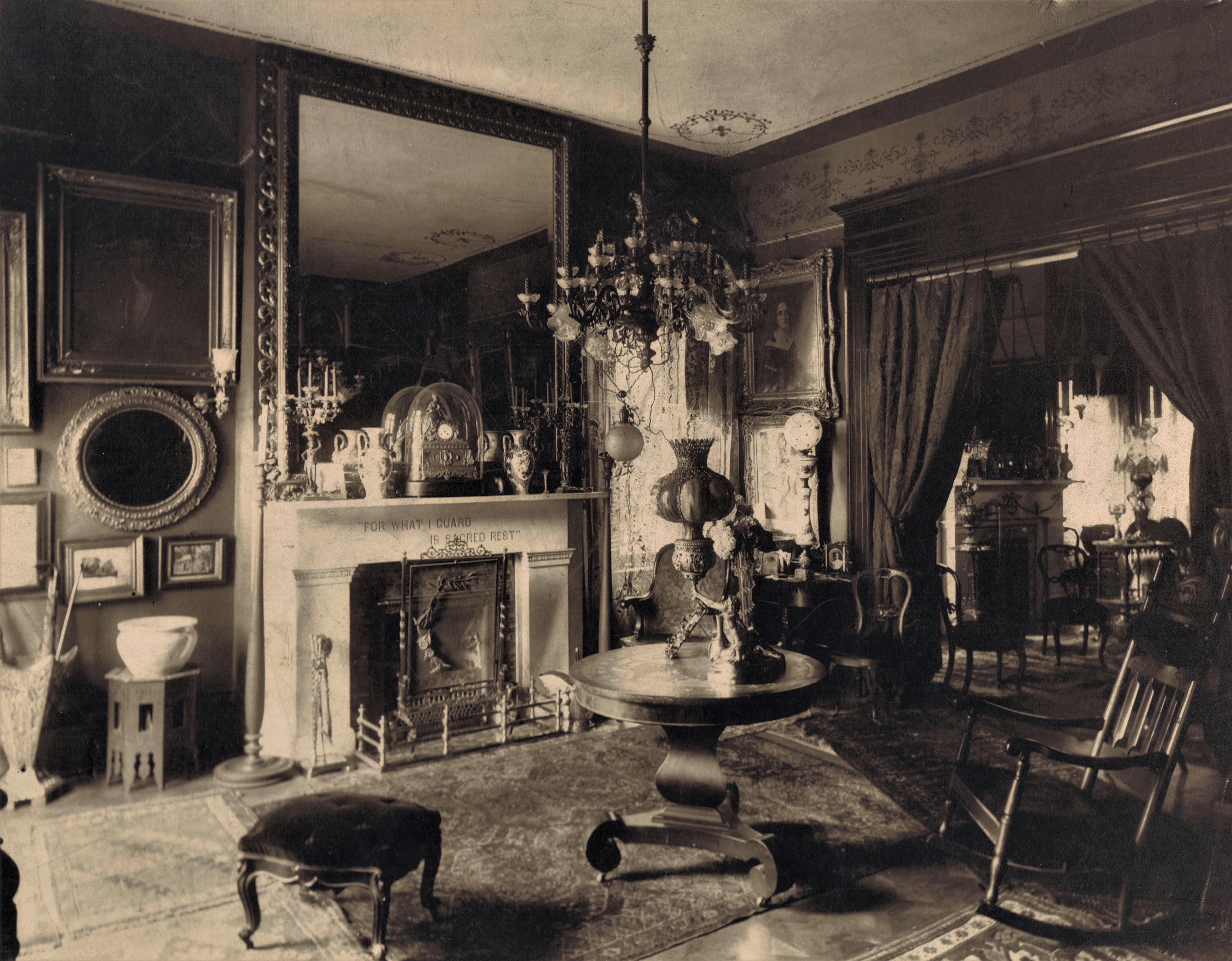 Interior view of Sarah Polk Fall's home.